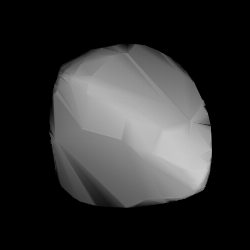 3D convex shape model of 896 Sphinx, computed using light curve inversion techniques. J. Hanuš, J. Ďurech, M. Brož, B. D. Warner (June 2011). "A study of asteroid pole-latitude distribution based on an extended set of shape models derived by the lightcurve inversion method". Astronomy and Astrophysics 530: A134. ISSN 0004-6361. arXiv